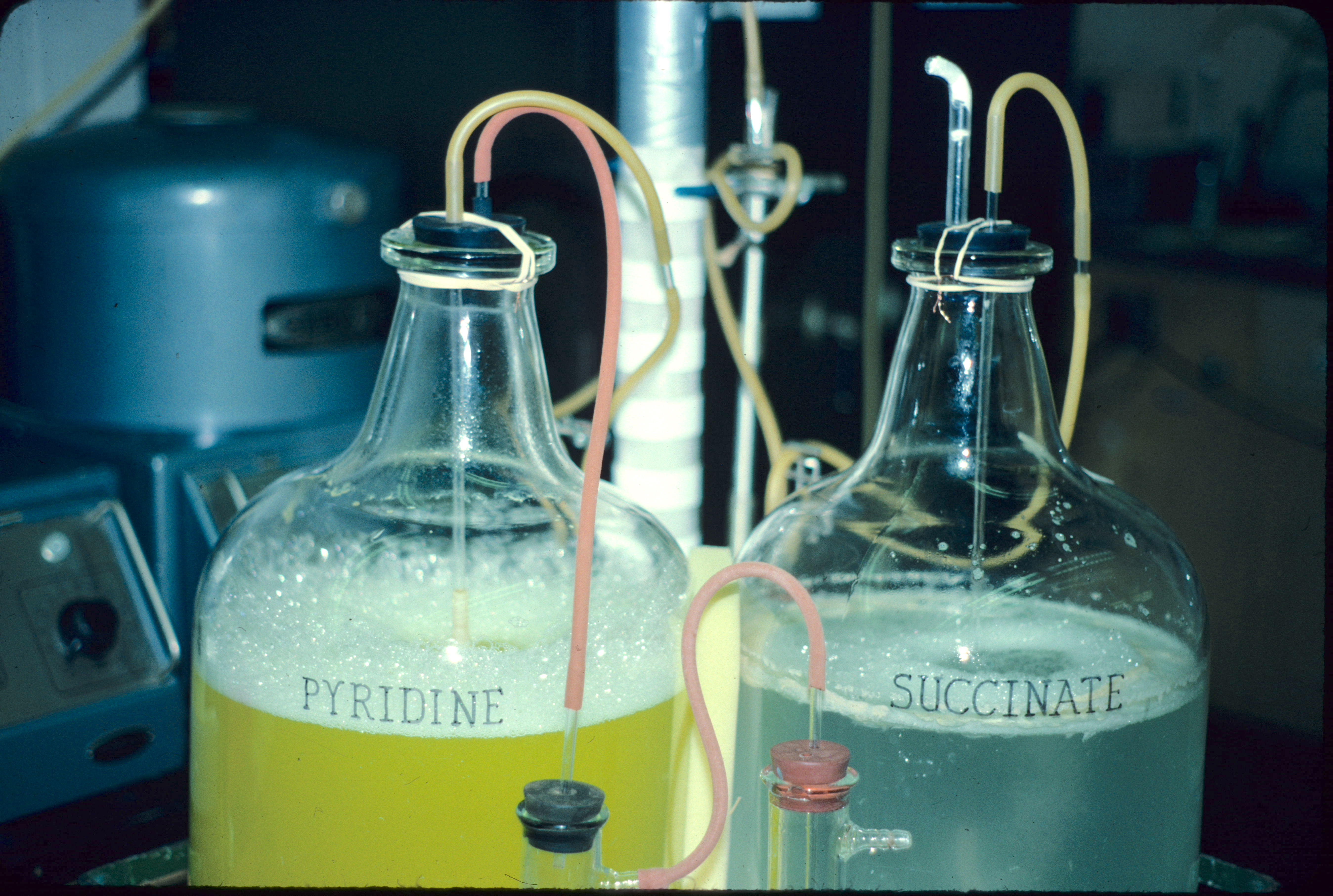 Micrococcus luteus (ATCC strain number 49442) develops a yellow color due to production of riboflavin while growing on pyridine but not when grown on other substrates, such as succinic acid.